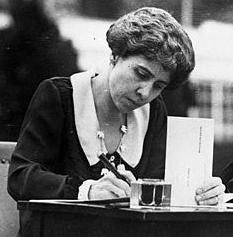 cropped version of File:Bundesarchiv Bild 102-00842, Grace Goodhue.jpg Title: Grace Goodhue Extra information: Washington.- Grace Goodhue, Gattin des amerikanischen Präsidenten Calvin Coolidge am Schreibtisch. People in the image: Coolidge, Calvin: Präsident, USA (PND 118669974) Factual corrections and alternative descriptions are encouraged separately from the original description. Additionally errors can be reported at this page to inform the Bundesarchiv. Original historic description: Washington. Die Präsidentin der Vereinigten Staaten bei einer schriftlichen Morgenarbeit im Garten des Weißen Hauses.